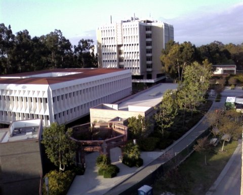 Taken at UC Irvine from on top of the Bren Building.